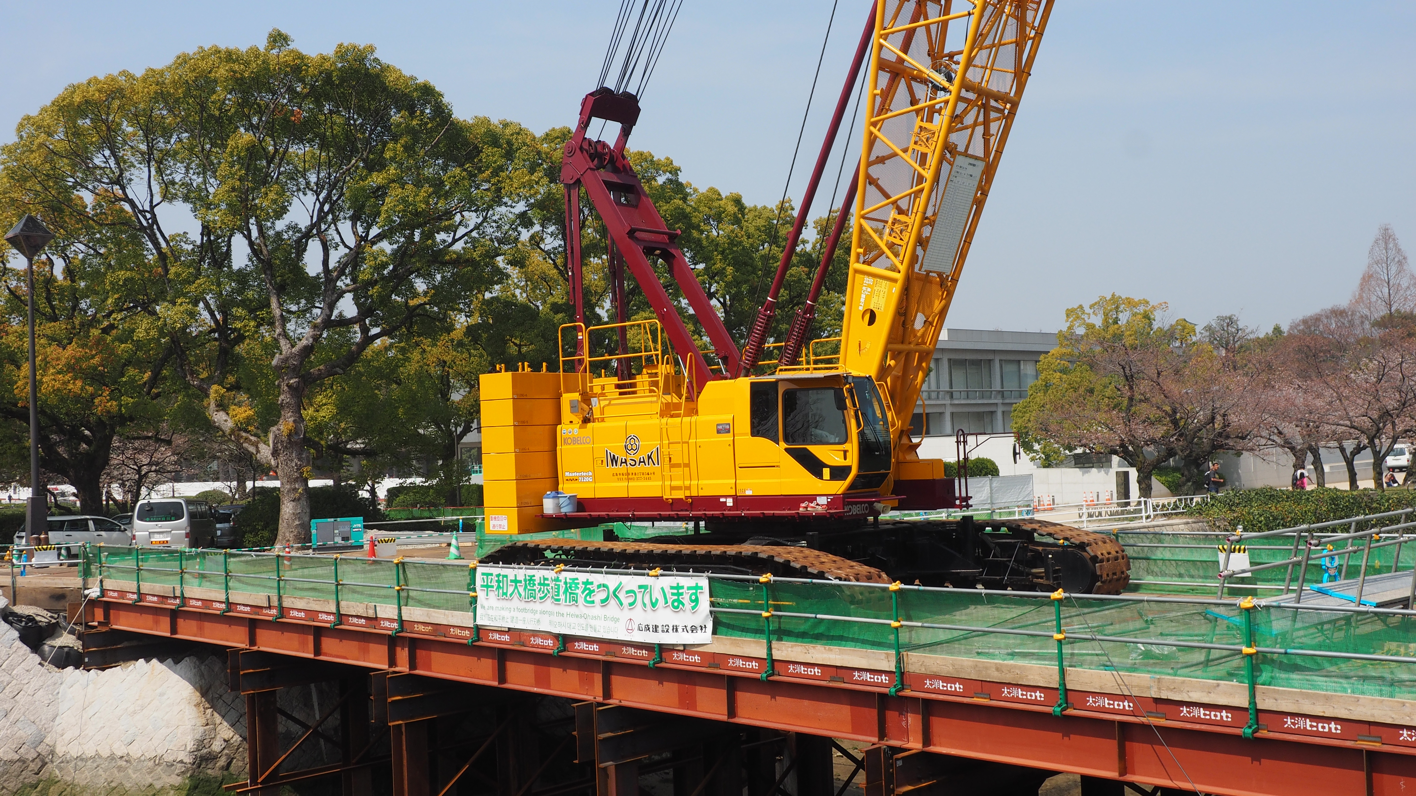 Mastertech 7120G; a crawler crane of Kobelco Construction Machinery Co., Ltd. Constructing the Footbridge of the Heiwa Grand Bridge in Hiroshima, Japan.